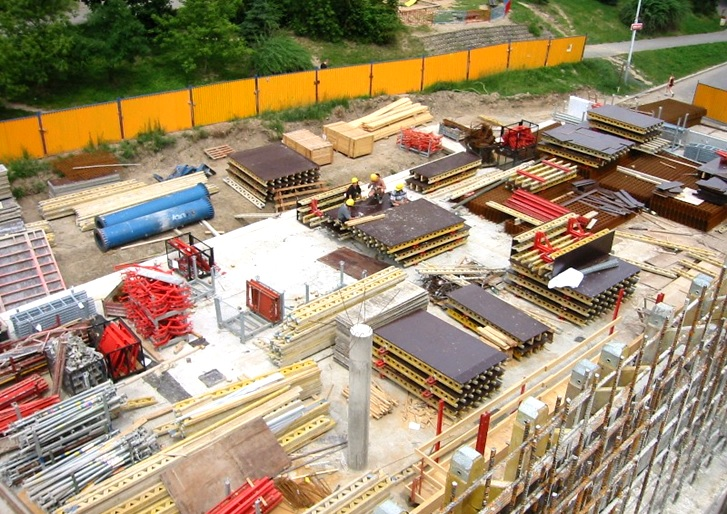 Assembly formwork panels